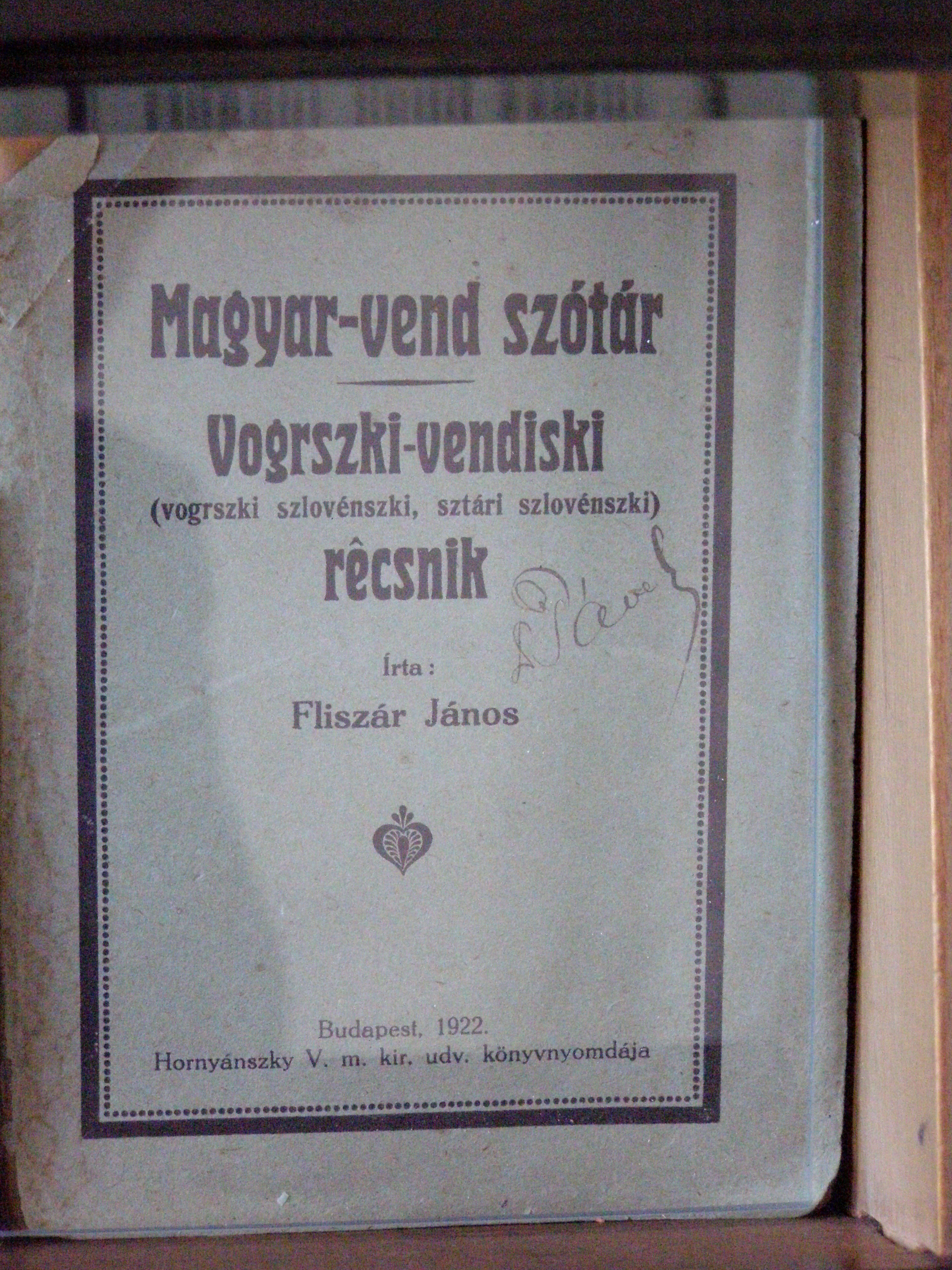 Hungarian-Wends (Prekmurian) Dictionary in 1922. By: János Fliszár